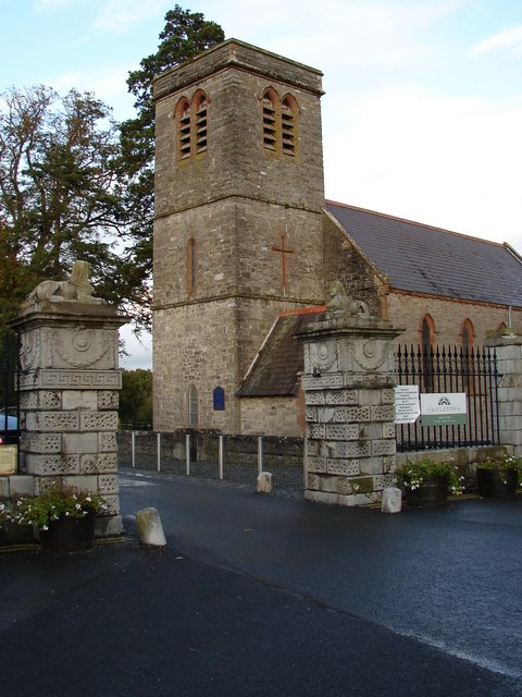 Christ Church, Church of Ireland, Celbridge. The pillars in the foreground with the unusual figures mark the beginning of the tree-lined road to Castletown House. The church was funded by the Board of First Fruits and built in 1812–1813.